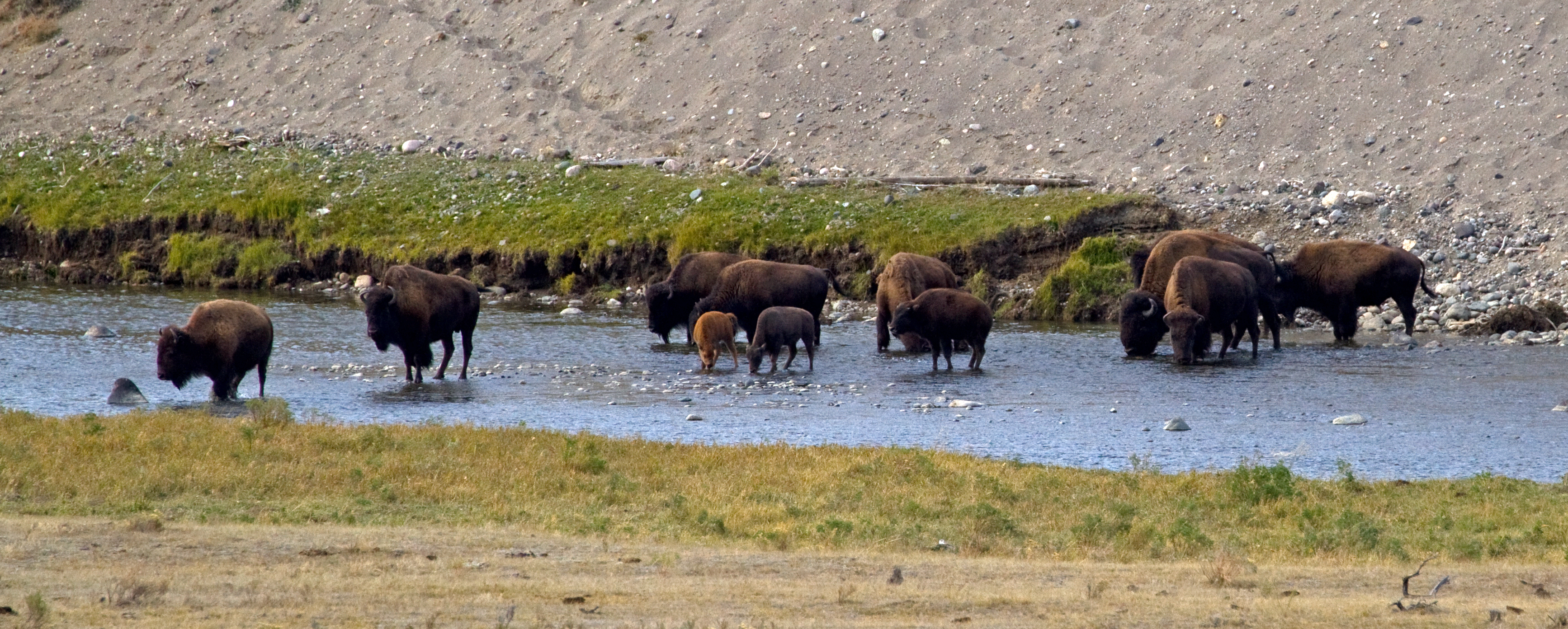 Bison River Crossing 3